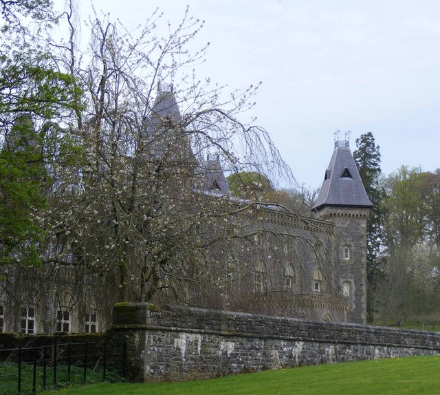 Newton House, Dynevor Park, Llandeilo, near to Pen-y-Banc, Carmarthenshire/Sir Gaerfyrddin, Wales.